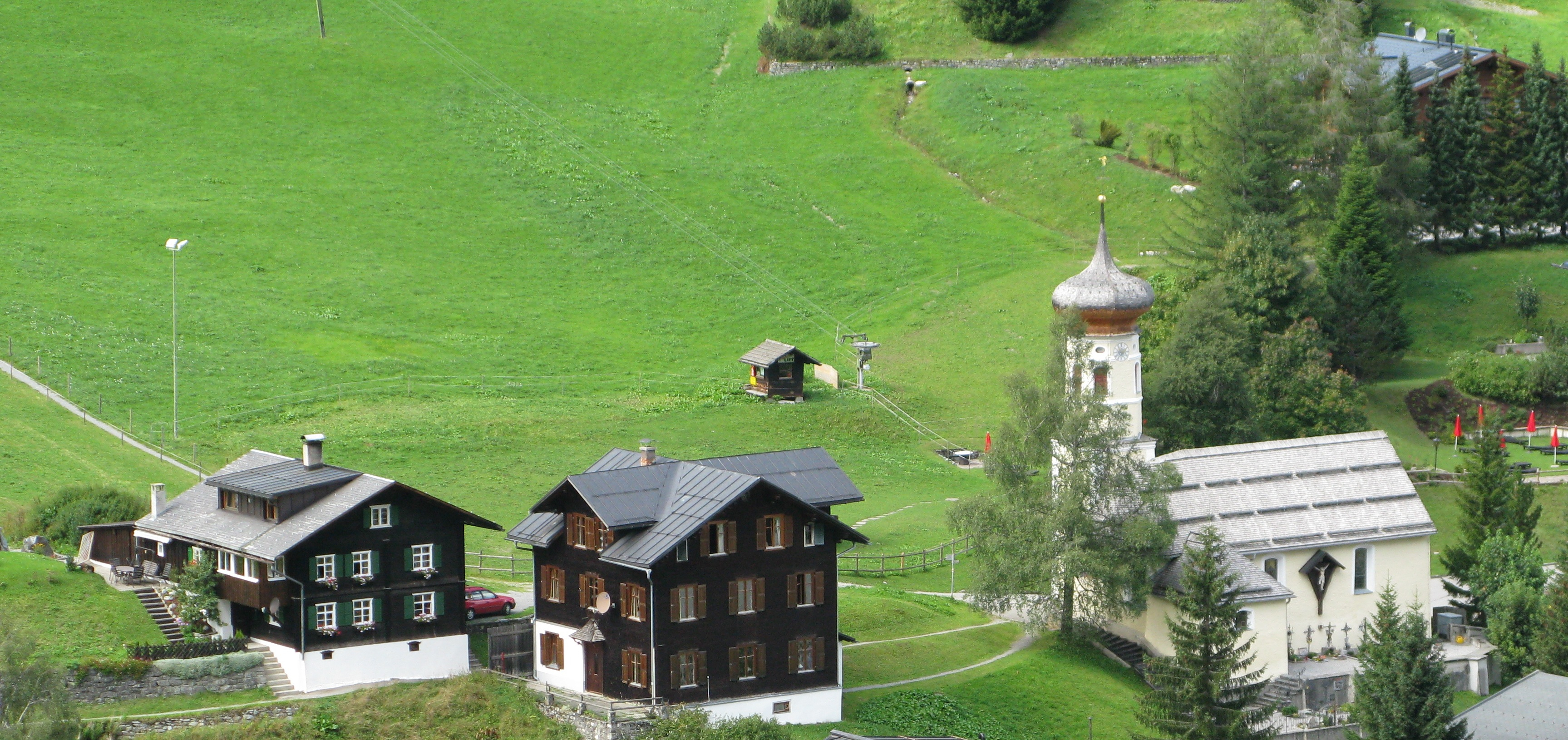 The Kuratiekirche St. Maria Magdalena of Gargellen in Montafon (Vorarlberg, Austria).